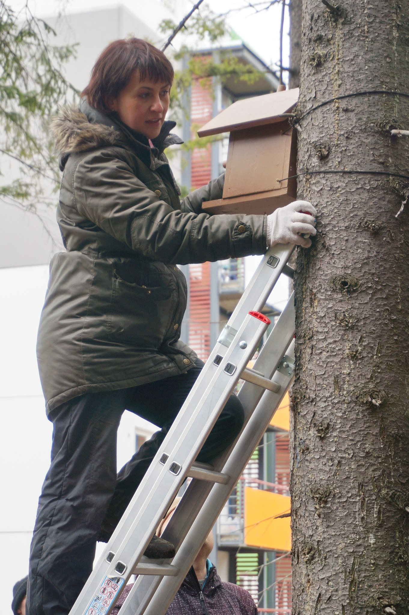 Galina Shirshina fixing the nest box (subbotnik in the saved forest in Petrozavodsk). 2015.